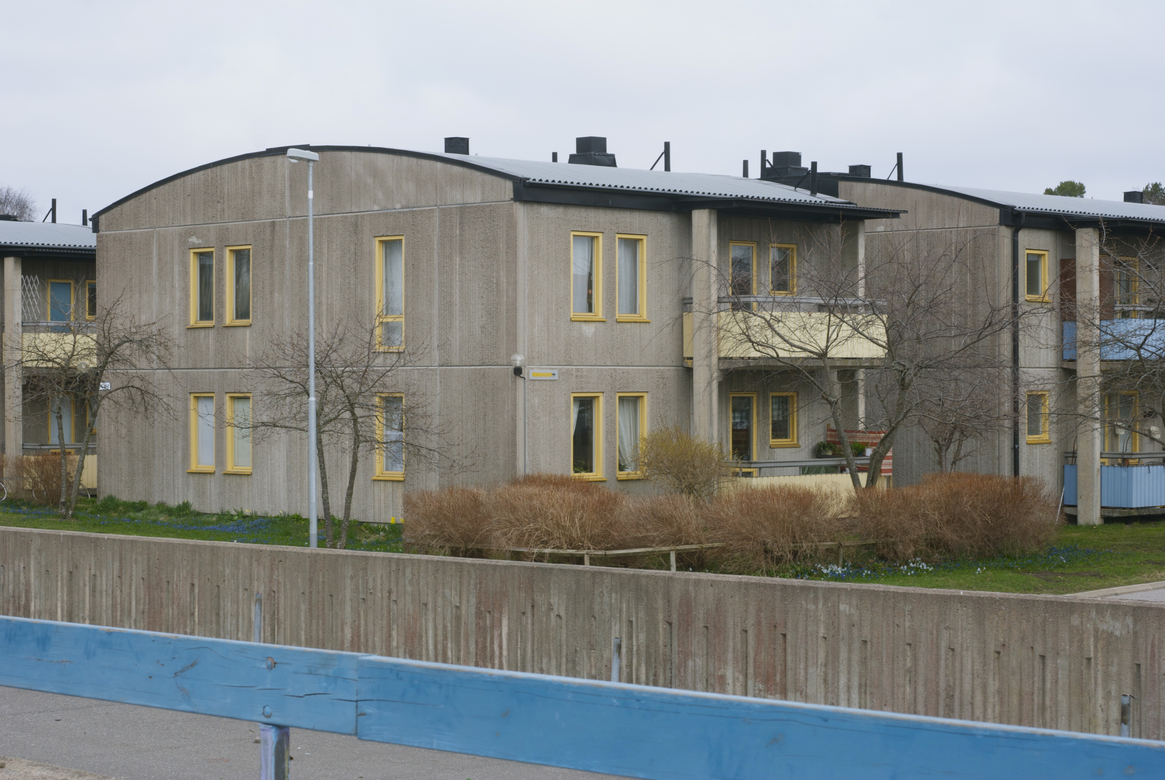 Västra (west) Orminge